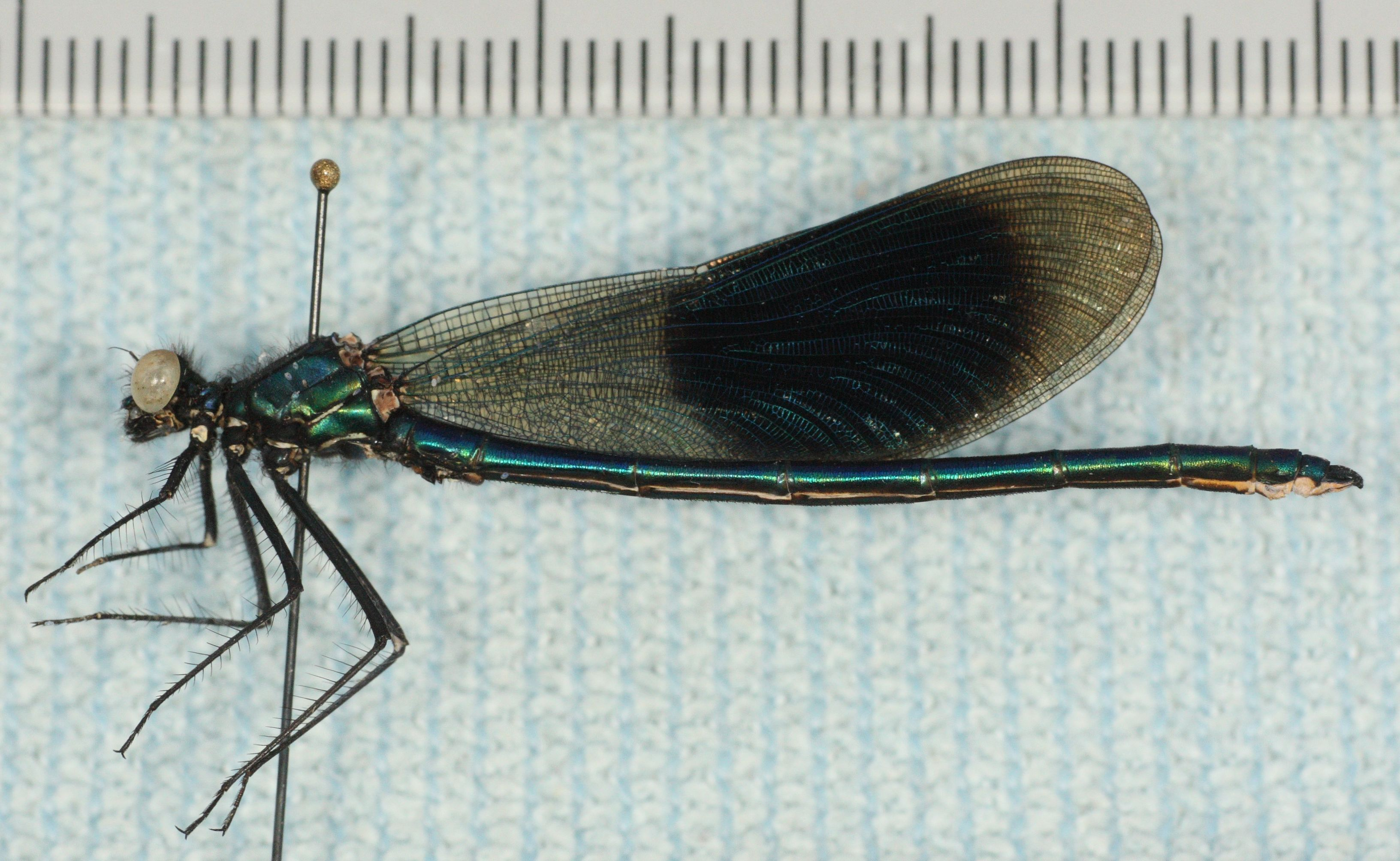 Male Banded Demoiselle Calopteryx splendens